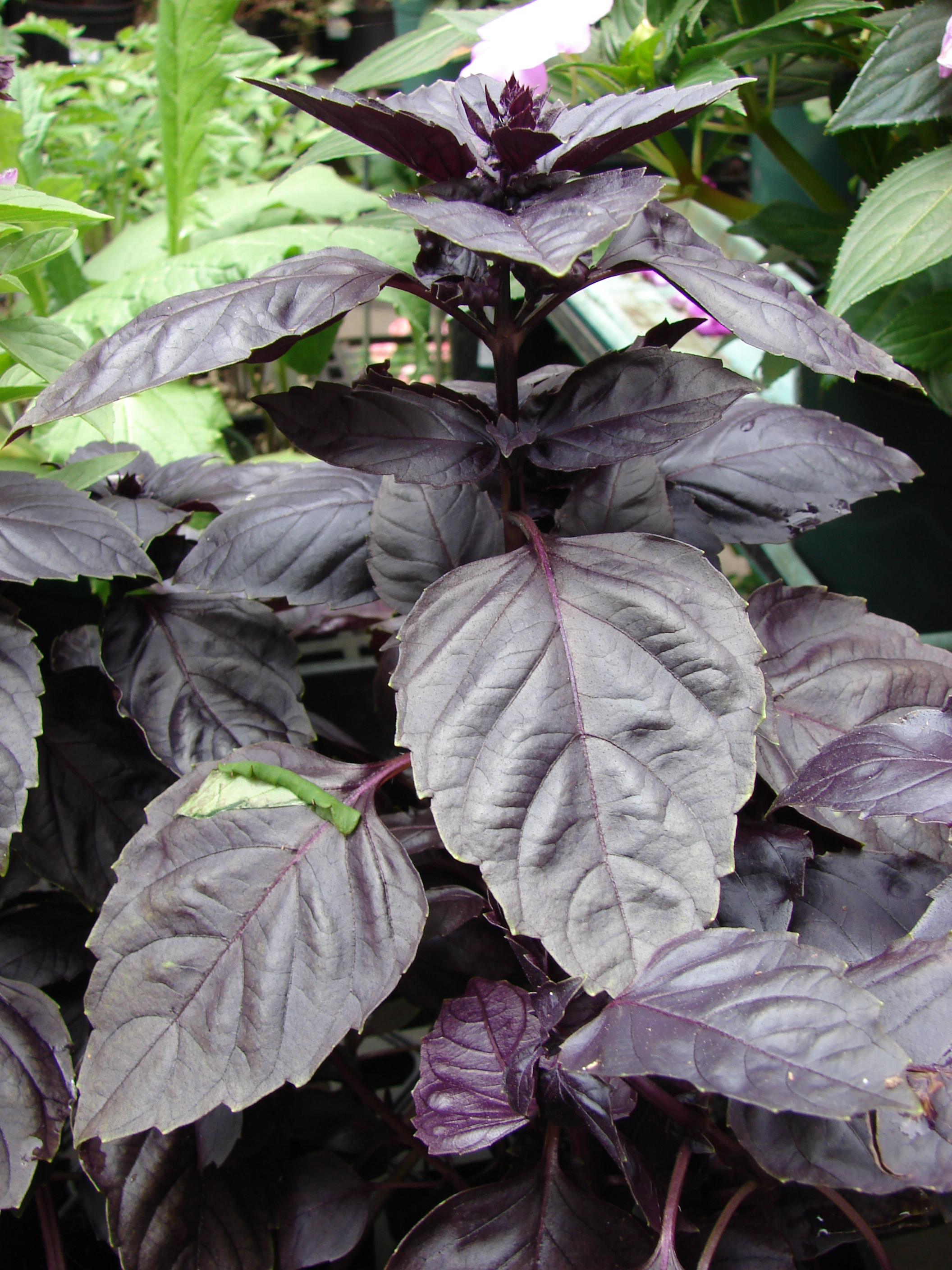 Ocimum basilicum var. purpureum (Red Rubin habit). Location: Maui, Kula Ace Hardware and Nursery